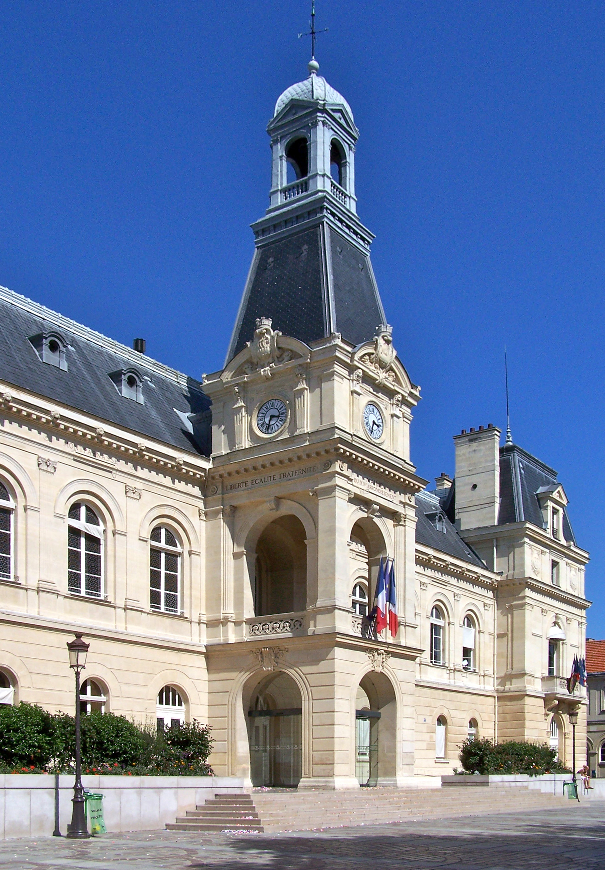 View of the city hall of the 14th arrondissement of Paris